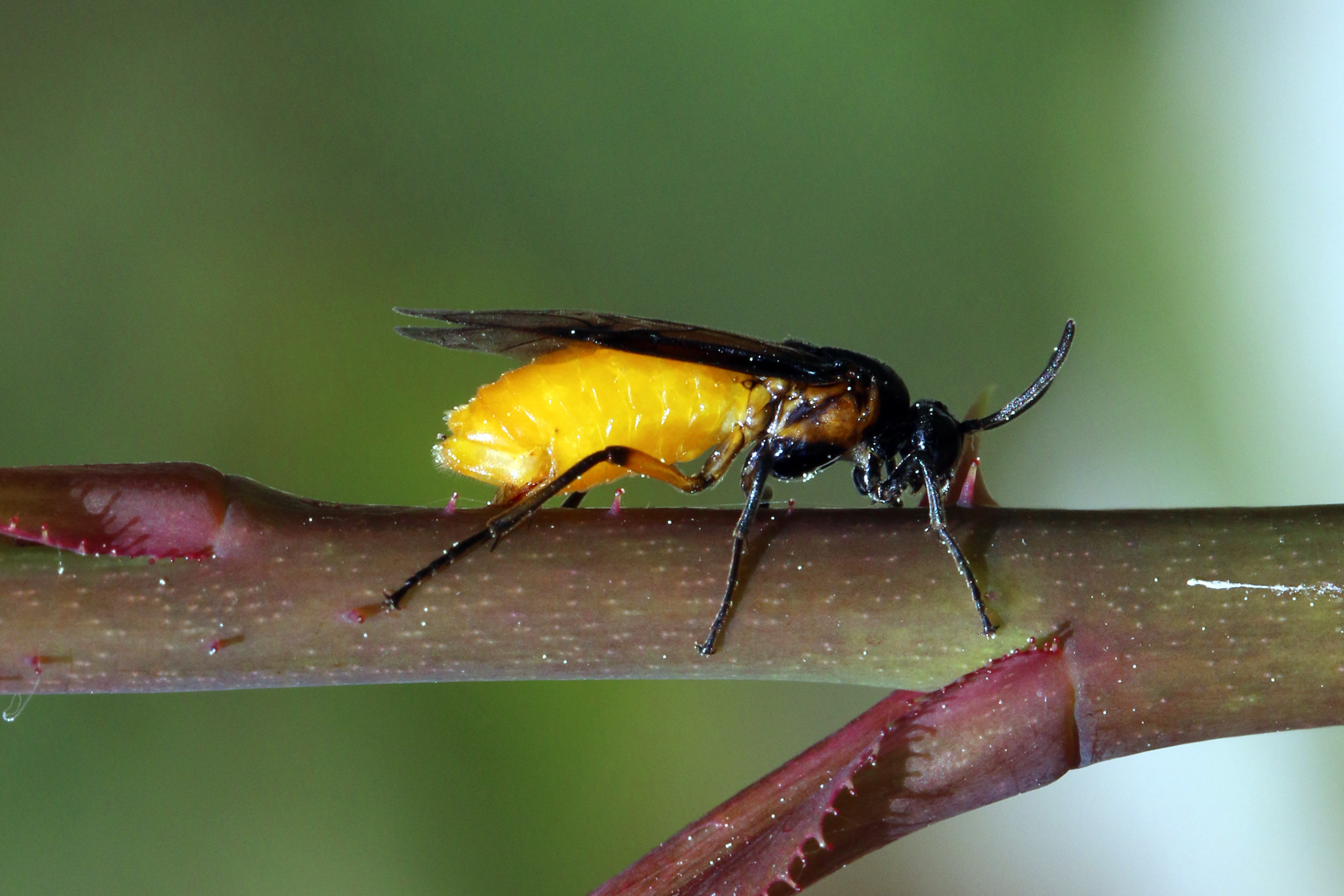 Large rose sawfly (Arge pagana stephensii), Cumnor Hill, Oxfordshire